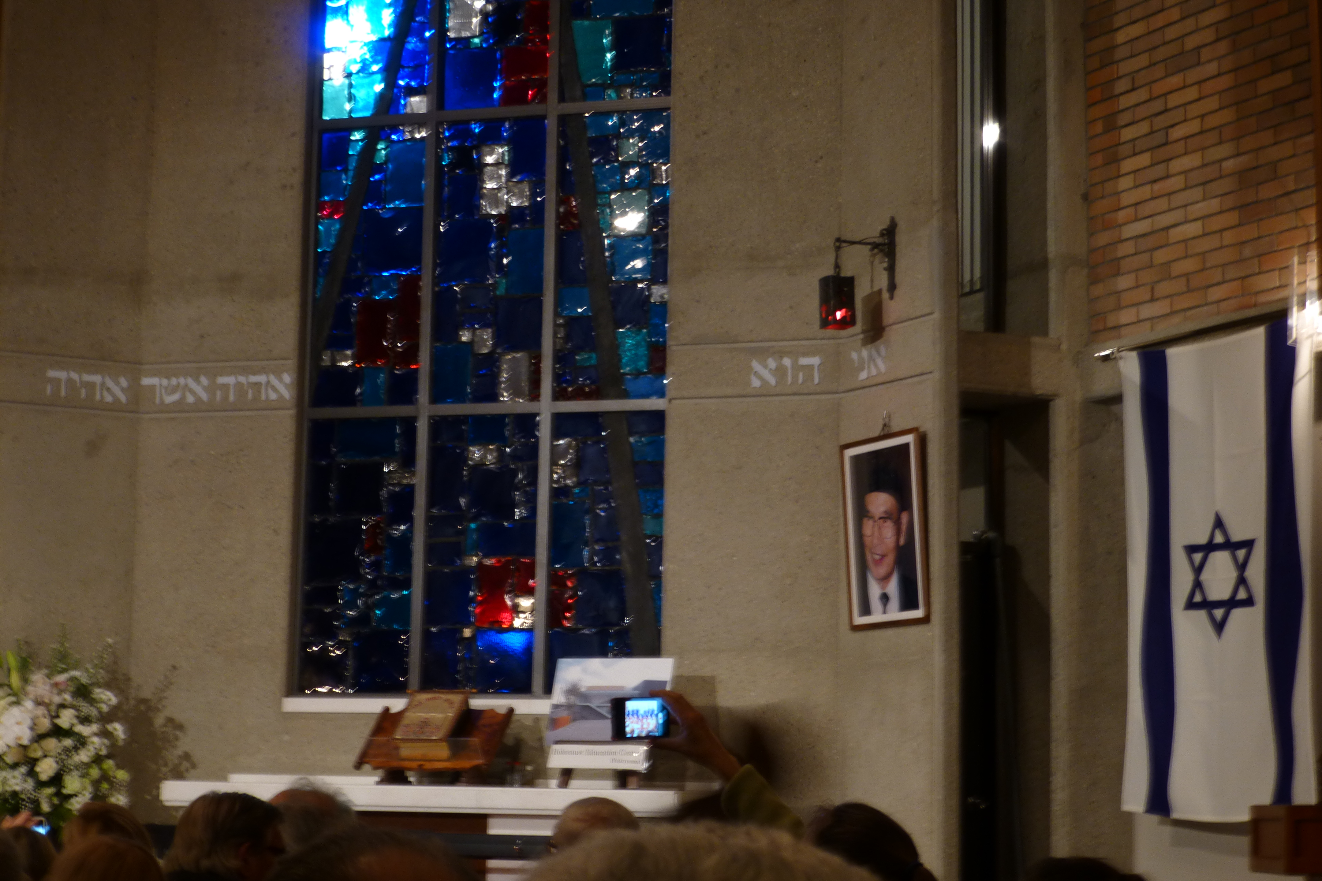 Holy Ecclesia of Jesus is an independent Japanese church founded by Ōtsuki Takeji n 1946, Father Ōtsuki Takeji founded Beit Shalom (also known as Japan Christian Friends of Israel)